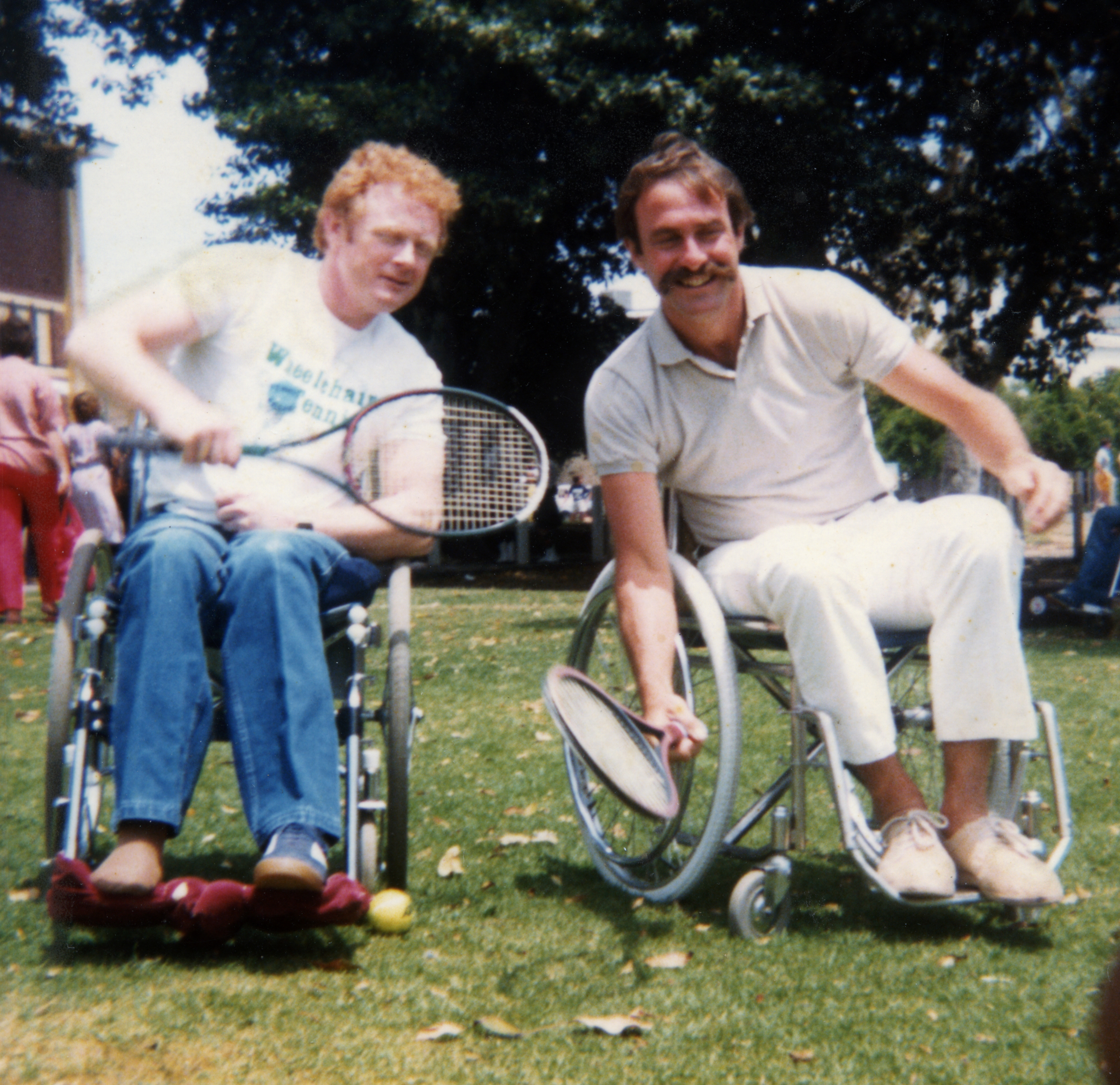 Paralympian Jeff Simmonds and tennis legend John Newcombe pose for the cameras to open the 1982 "Para Fun Day" at St Leonards Park in Sydney to help raise funds for the NSW wheelchair tennis association.